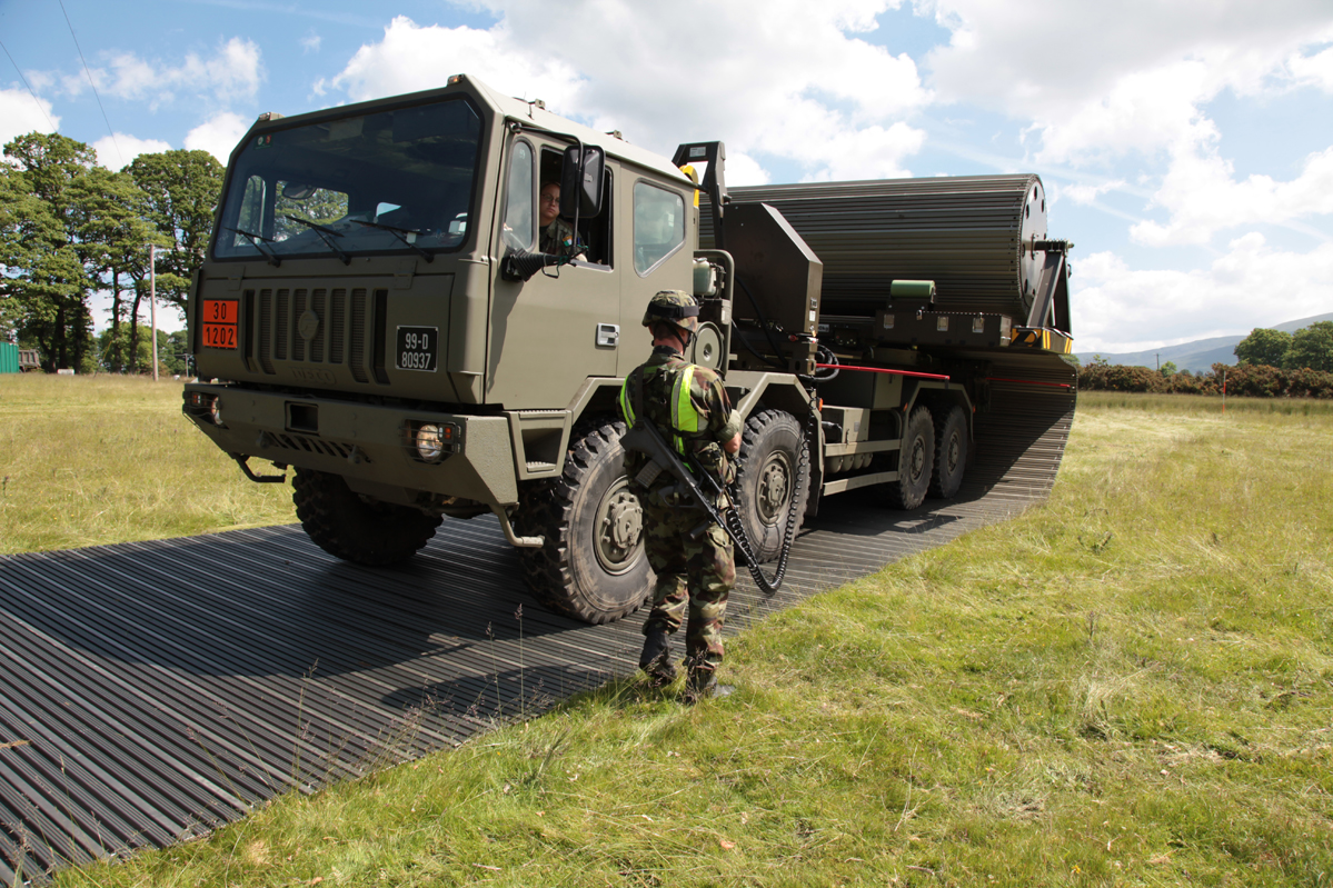 Irish Army Iveco Astra M 320E D Trackway Variant